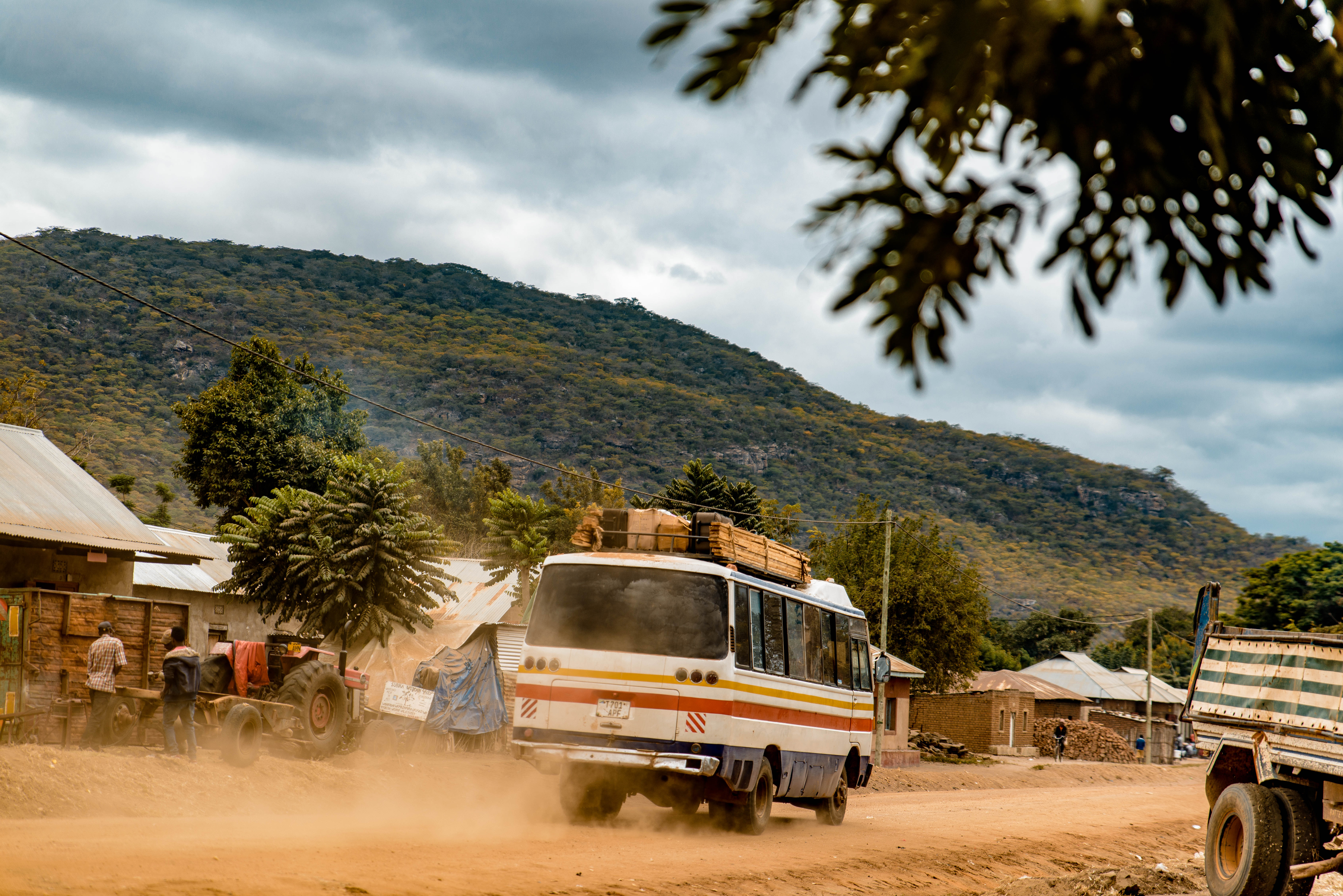 Meanwhile in Kondoa Tanzania This is an image with the theme "Africa on the Move or Transport" from: Tanzania